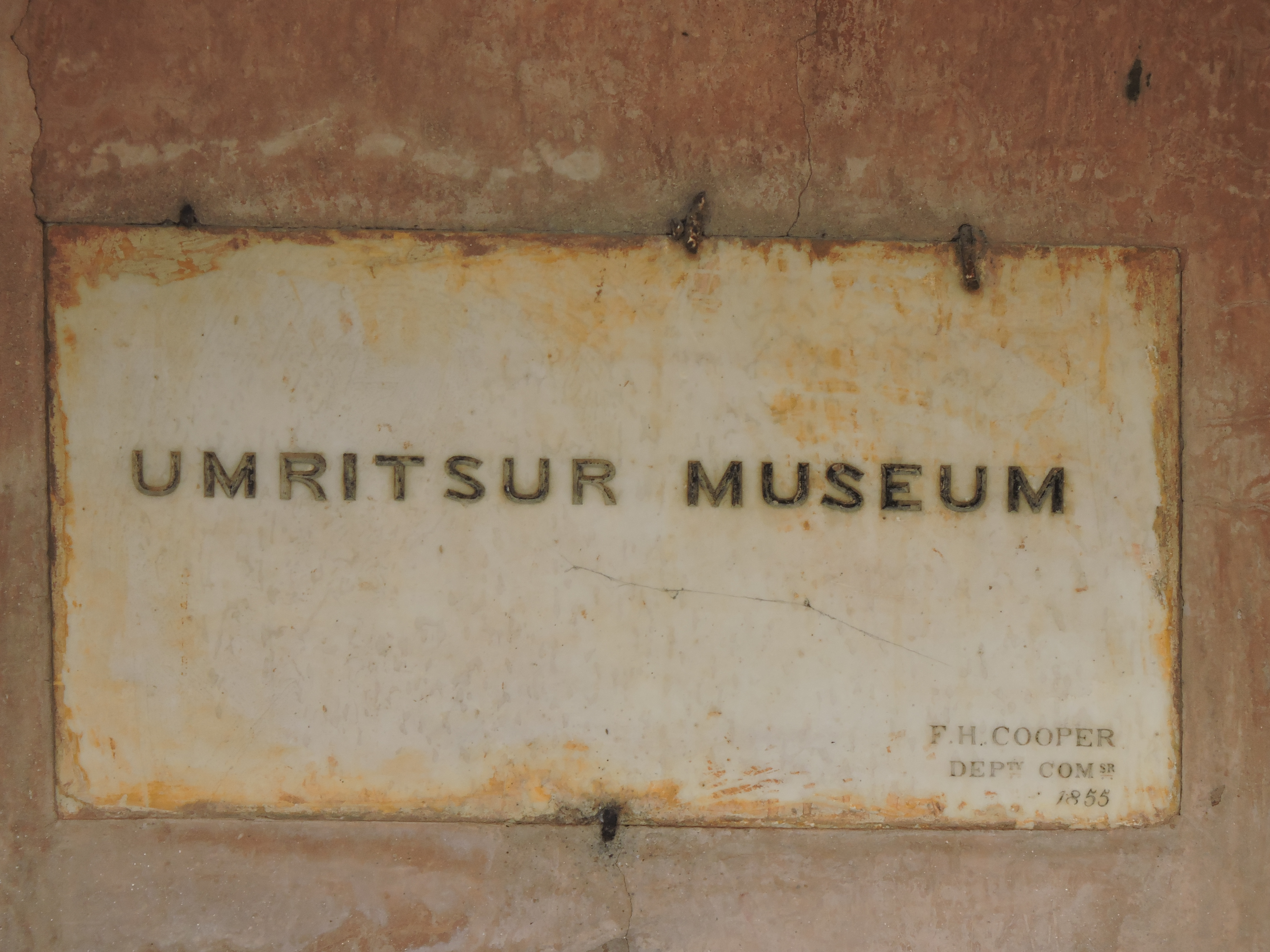 Description about Rambagh complex cum palace during British perod, Amritsar,India